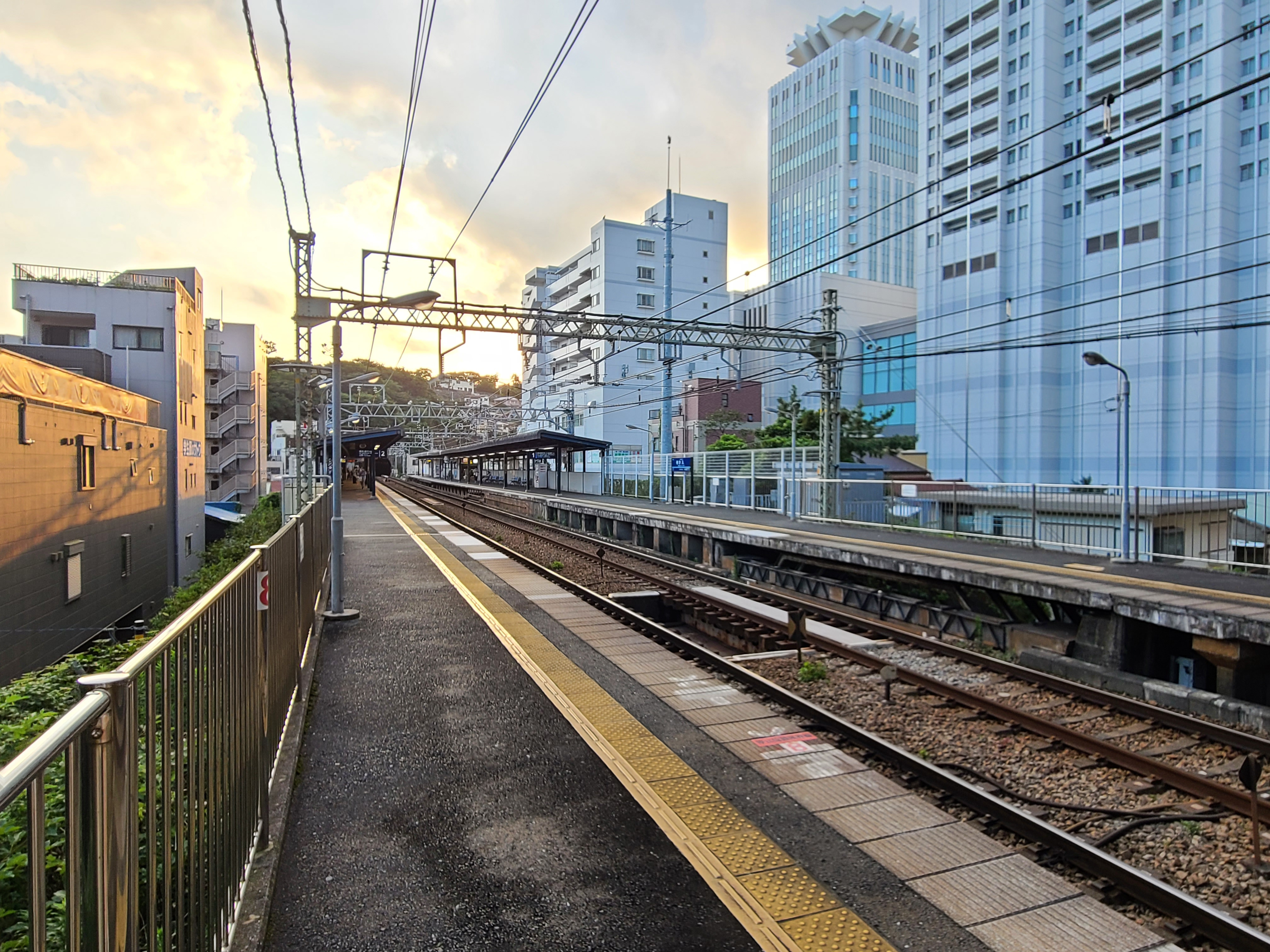 This is the platform of Shioiri Station.